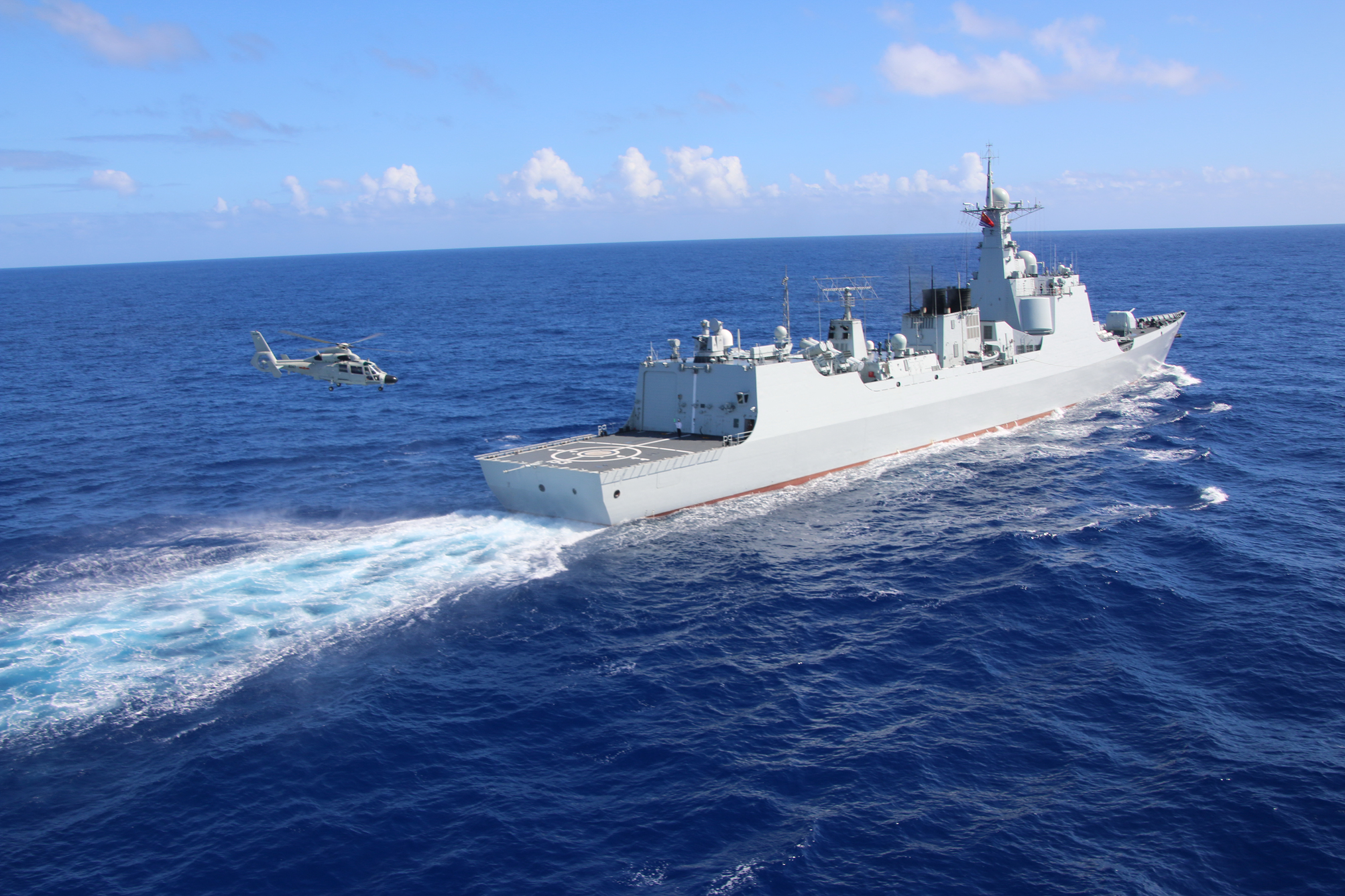 160718-N-CA112-003 PACIFIC OCEAN A helicopter attached to Chinese Navy ship multirole frigate Hengshui prepares to land on the ship during a maritime interdiction event for Rim of the Pacific . Twenty-six nations, more than 40 ships and submarines, more than 200 aircraft and 25,000 personnel are participating in RIMPAC from June 30 to Aug. 4, in and around the Hawaiian Islands and Southern California. The world's largest international maritime exercise, RIMPAC provides a unique training opportunity that helps participants foster and sustain the cooperative relationships that are critical to ensuring the safety of sea lanes and security on the world's oceans. RIMPAC 2016 is the 25th exercise in the series that began in 1971. Unit: Commander, U.S. 3rd Fleet DVIDS Tags: interdiction; chinese; china; rimpac